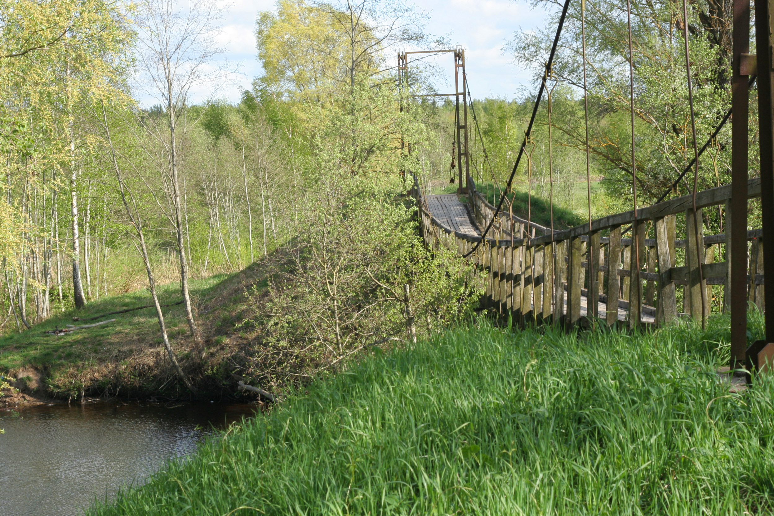 Cable bridge over Iecava river, Ozolnieki municipality, Latvia